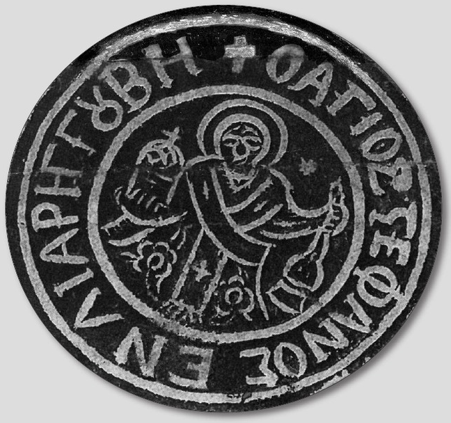 Saint Stephan Church in Liarigovo Arnea Seal 1857